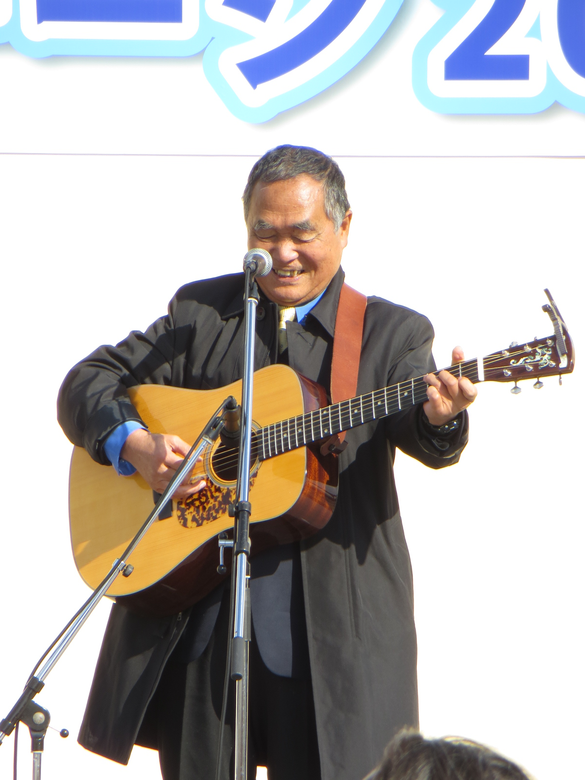 Tomoya Takaishi (Singer-songwriter, Folk guitarist, and Bluegrass musician from Japan).